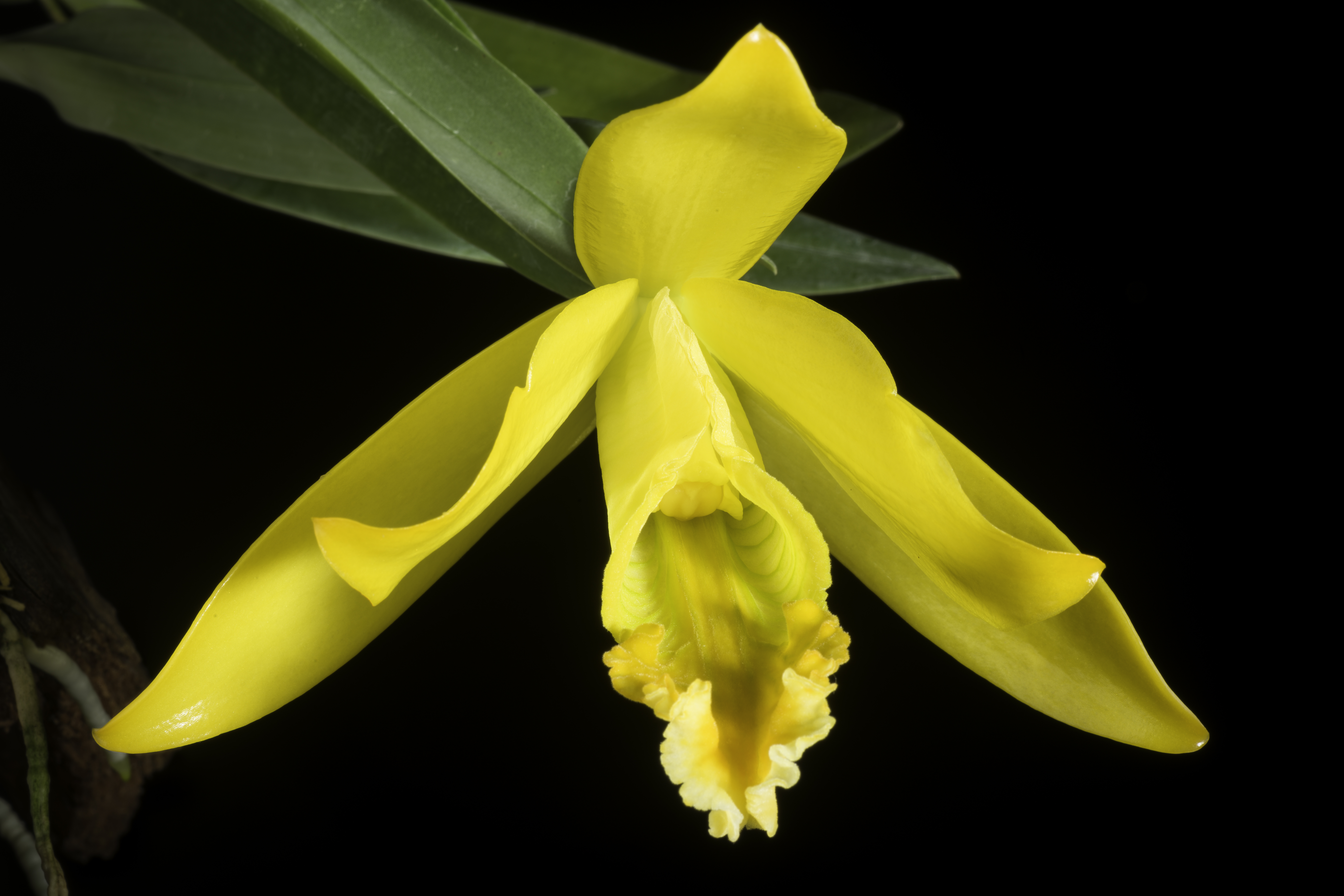 [Mexico / メキシコ] Distribution: SW. Mexico (to Durango) (79 MXE MXS) Lifeform: Pseudobulb epiphyte Basionym Sobralia citrina Lex. in P.de La Llave & Lexarza, Nov. Veg. Descr. 2(Orchid. Opusc.): 21 (1825). Homotypic synonyms Cattleya citrina (Lex.) Lindl., Coll. Bot.: t. 37 (1826). Epidendrum citrinum (Lex.) Rchb.f. in W.G.Walpers, Ann. Bot. Syst. 6: 317 (1861). Encyclia citrina (Lex.) Dressler, Brittonia 13: 264 (1961). Euchile citrina (Lex.) Withner, Cattleyas & Relatives 5: 138 (1998). Heterotypic synonyms Cattleya sulfurina Lem., Ill. Hort. 1(Misc.): 2 (1854).